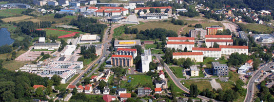 Top view